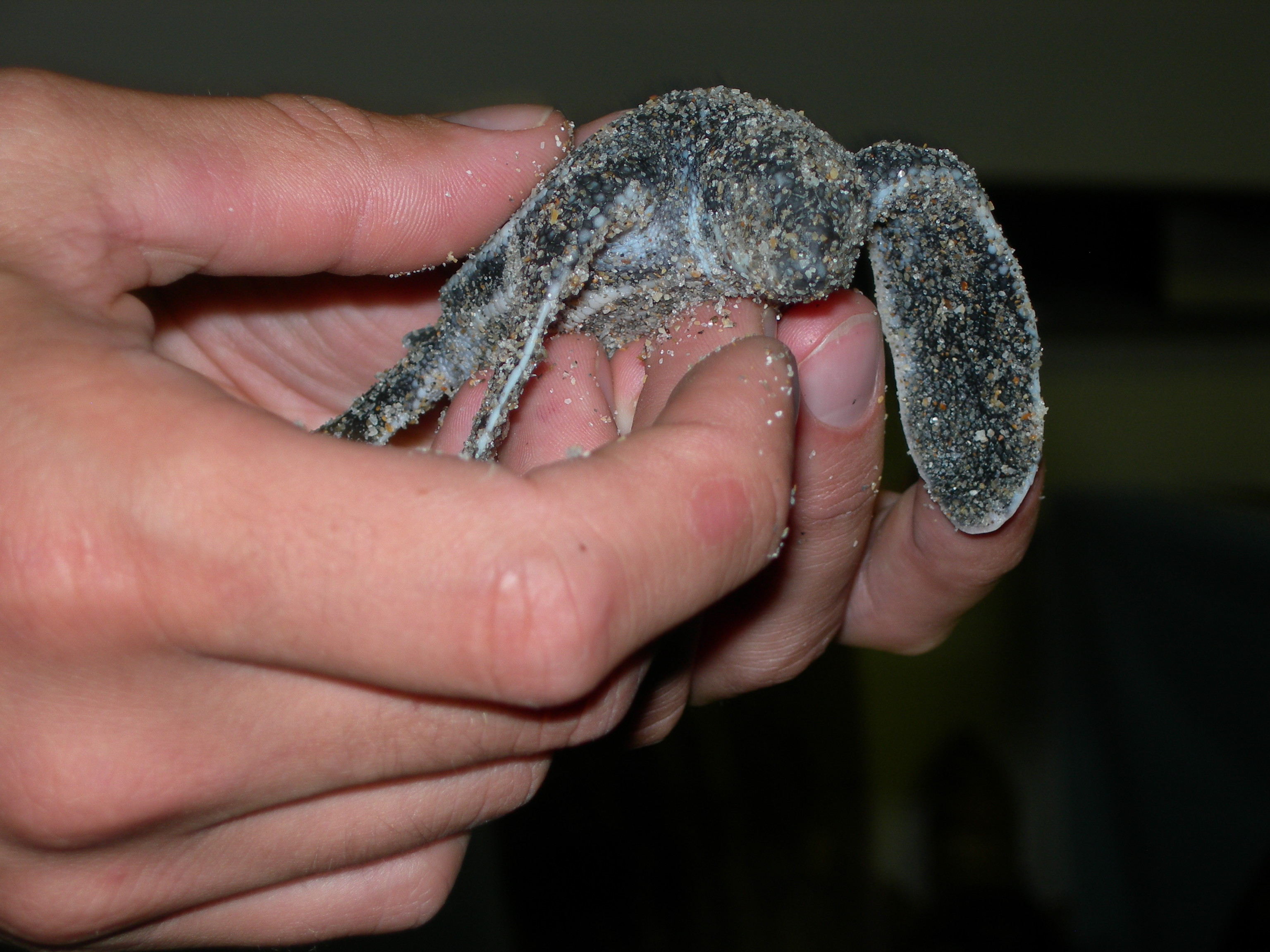 Baby leatherback turtle, at Gumbo Limbo Environmental Complex